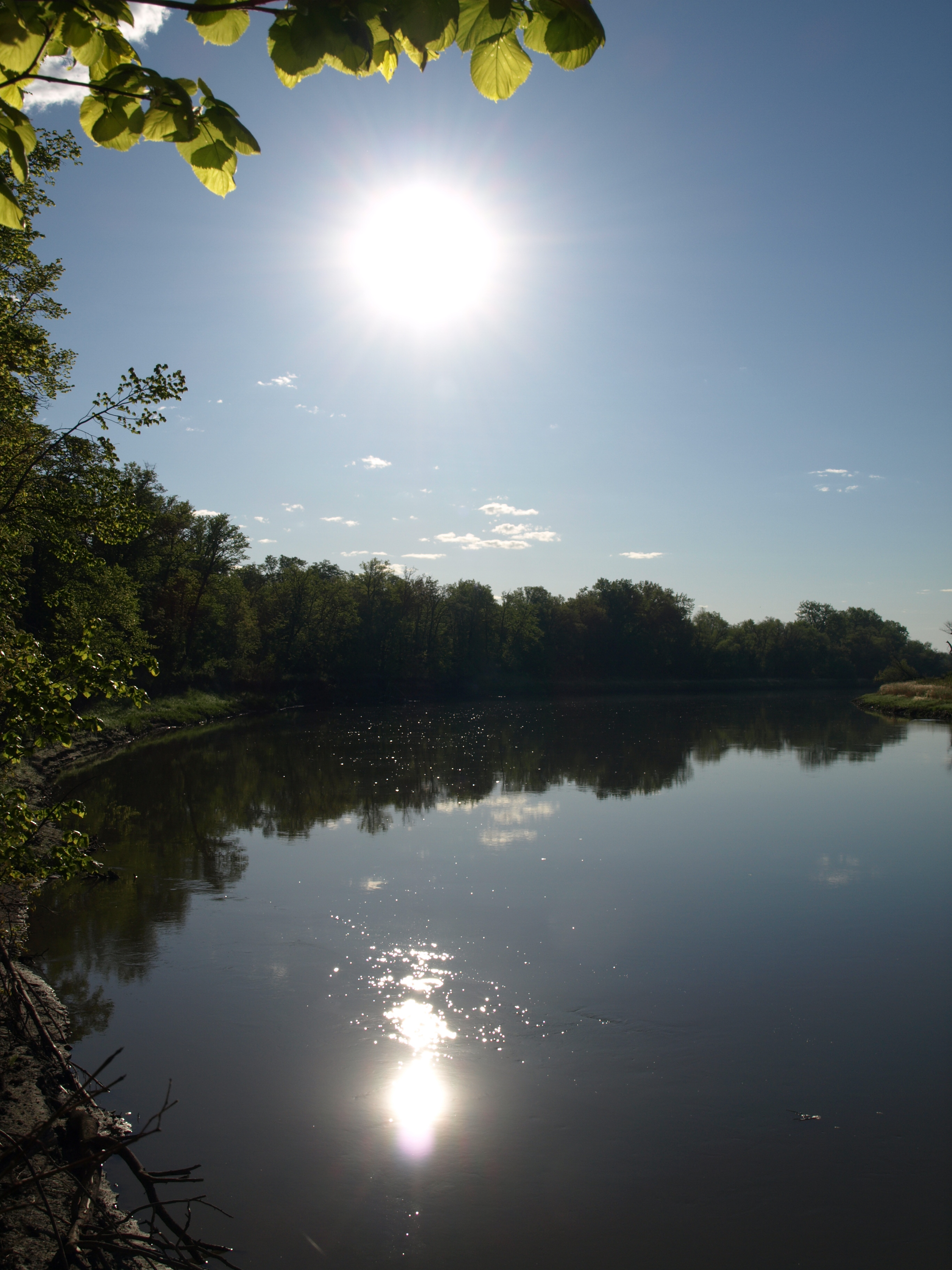 A view of the Assiniboine river near Winnipeg, Canada.